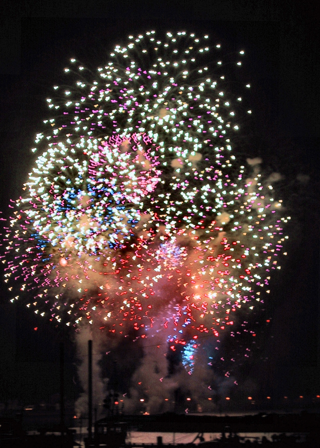 Fireworks in Royan on 15th of august feast. Charente-Maritime (17), Poitou-Charentes, France, Europe.